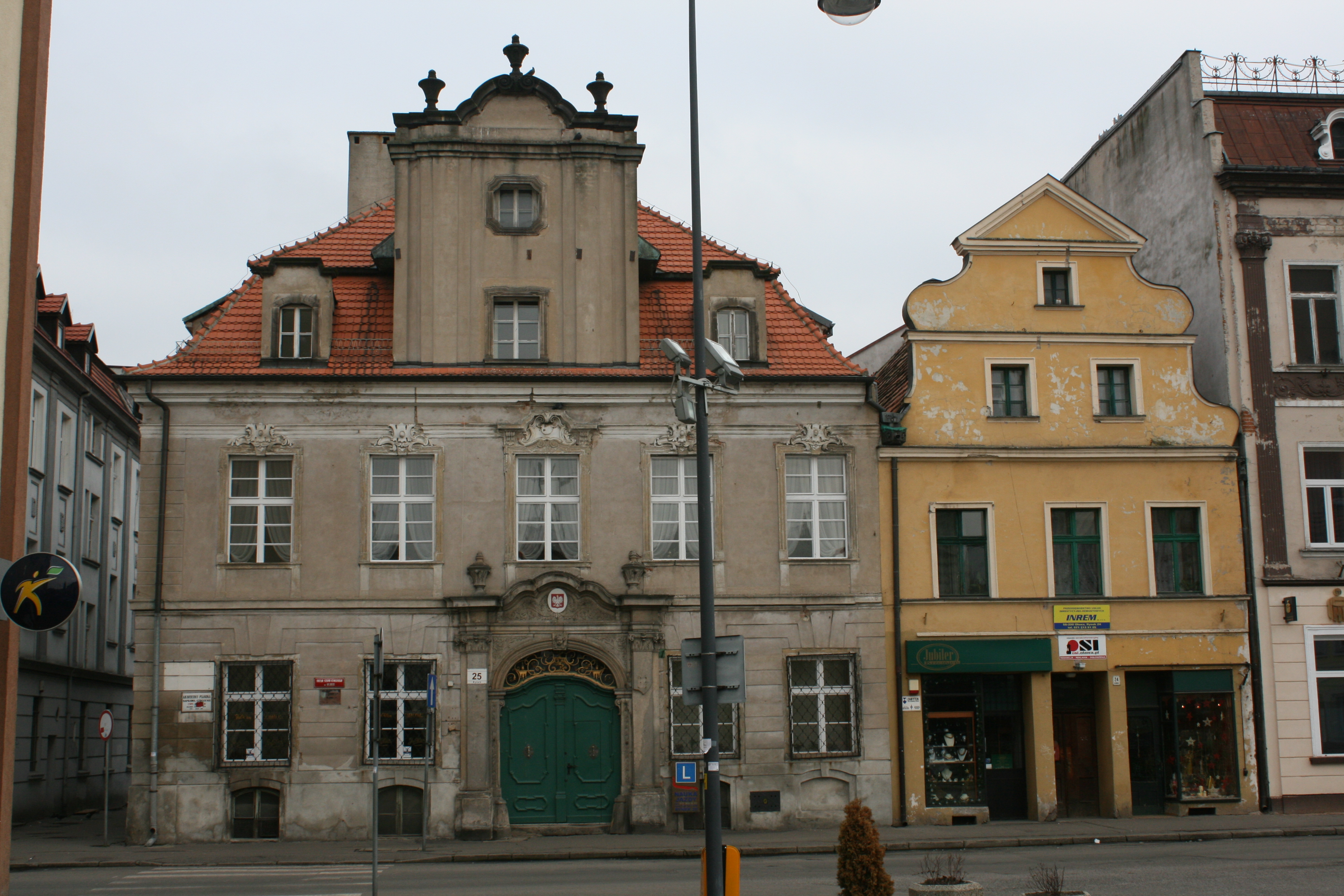 Tenement houses in Oława, Poland 1964-01-21.